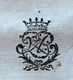 Joachin Ibarra Printer's mark